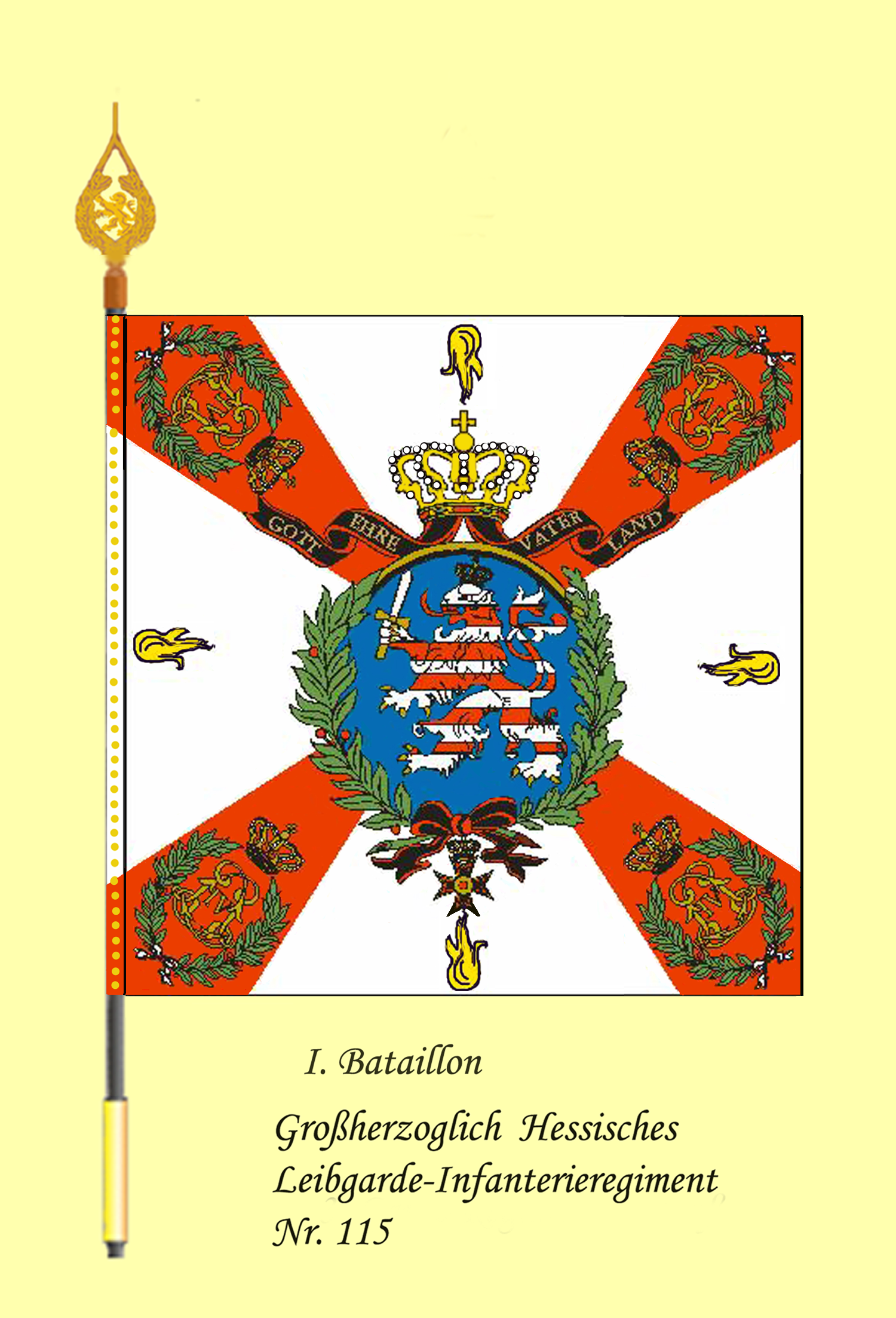 Colors of the 1st Battalion of the Grand Duke of Hesse's 115th Regiment of Infantry in the prussian army